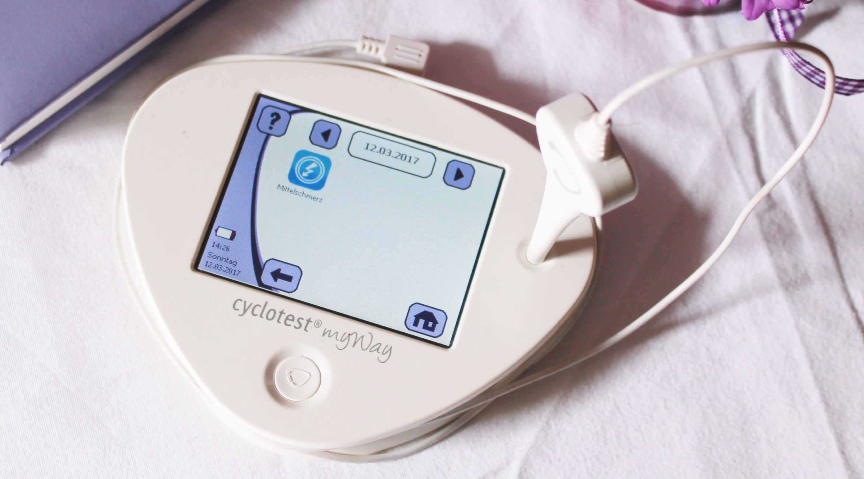 fertility and contraception monitor cyclotest myWay with inserted sensor